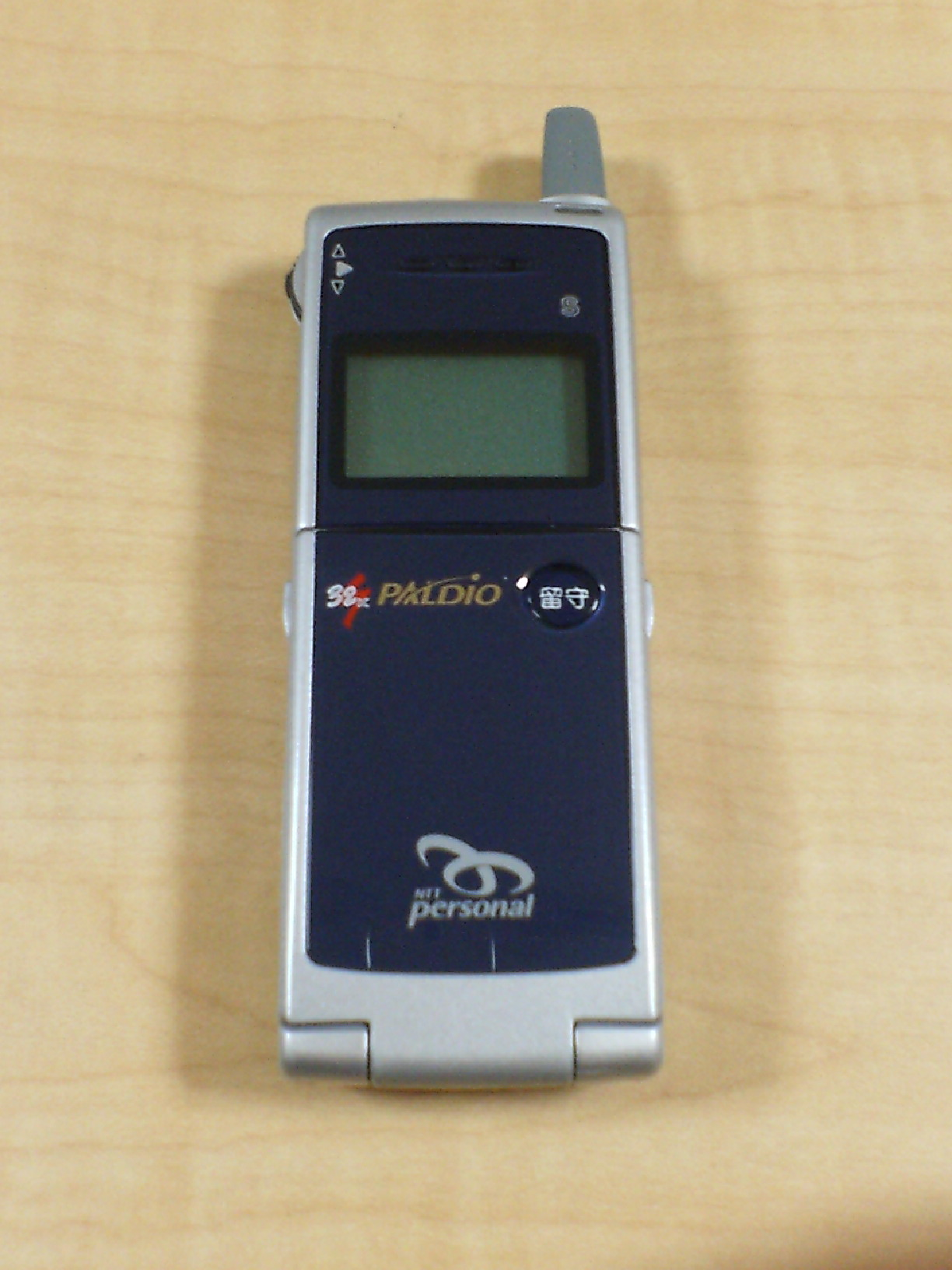 NTT Personal/Sharp 312S PHS mobile phone